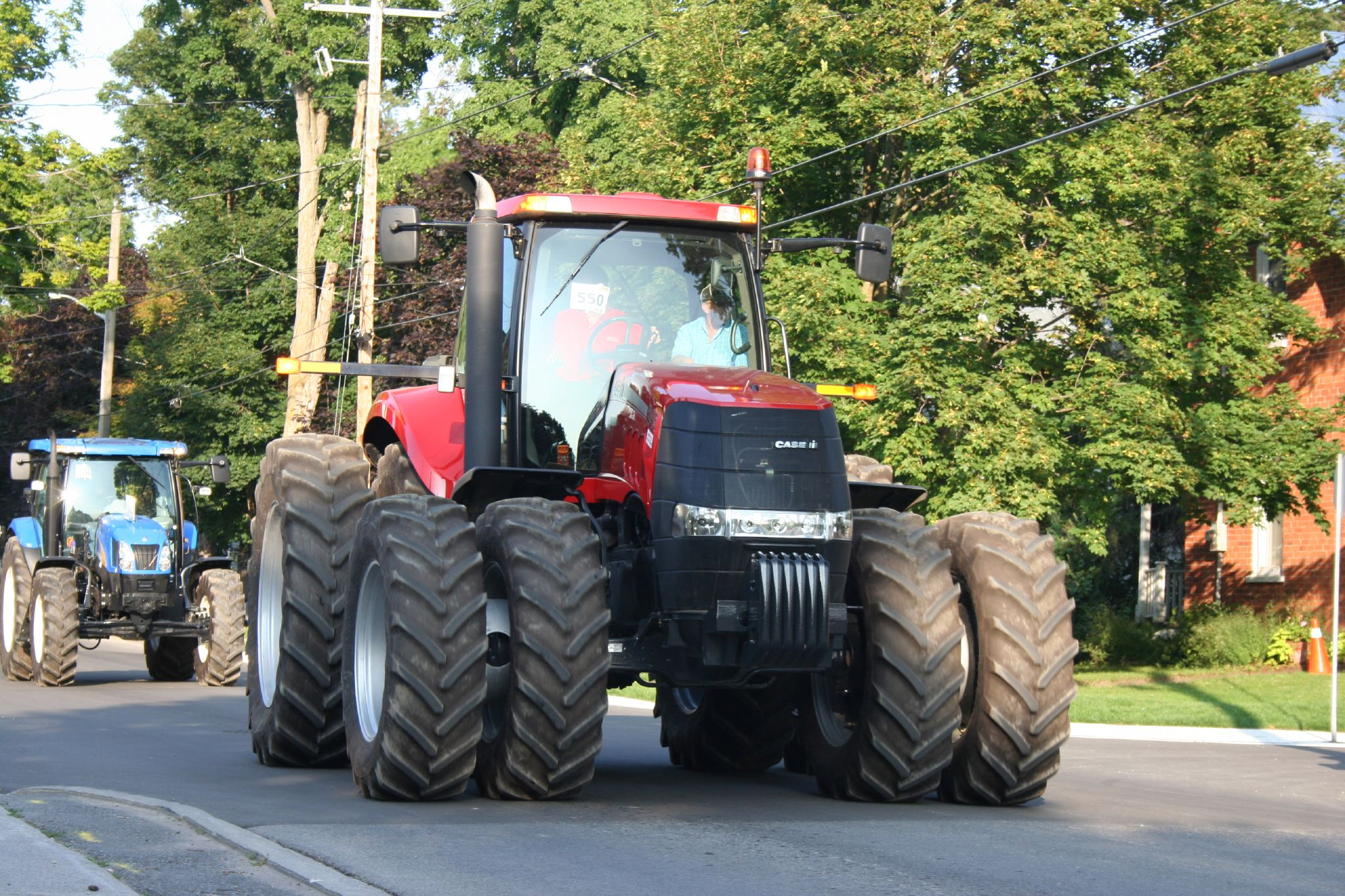 A twin-tyred Case IH tractor, Stirling Tractor Parade 2008, Canada